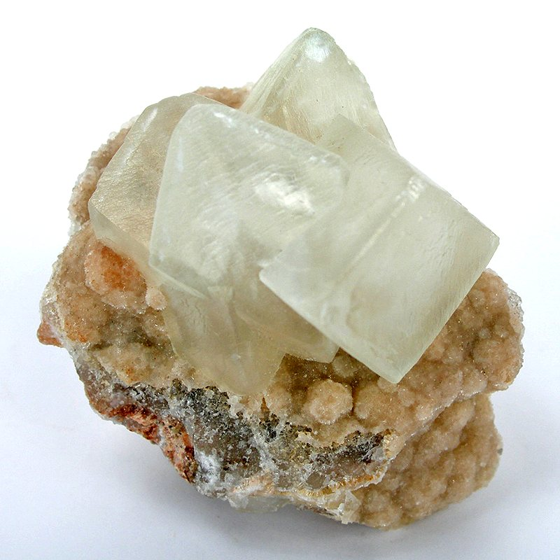 Smithsonite, Willemite Locality: Berg Aukas (Berg Aukus), Grootfontein District, Otjozondjupa Region, Namibia (Locality at ) Size: miniature, 4.5 x 3.4 x 2.8 cm Smithsonite on Willemite Well formed rhombs of lustrous and translucent, ivory colored, smithsonite, to a relatively large 1.75 cm across, are perched on a matrix of willemite, in tan, drusy spheres. A lovely and aesthetic specimen of smithsonite. This is a superb display miniature specimen of exquisite balance. (NOT TSUMEB but included here because Charlie kept it anyhow for comparison and to complement his Tsumeb pieces )